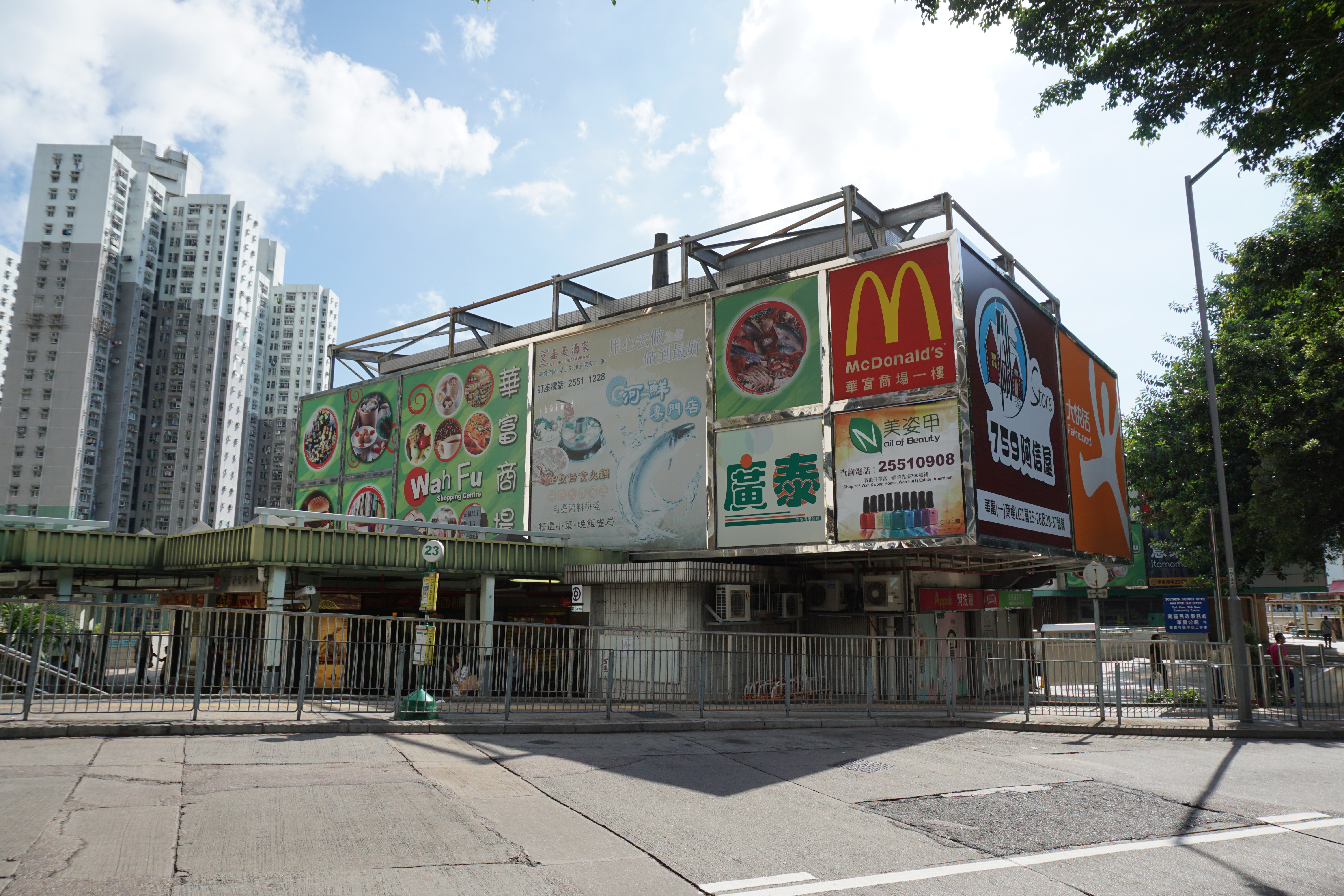 Wah Fu Shopping Centre in Pok Fu Lam, Hong Kong.